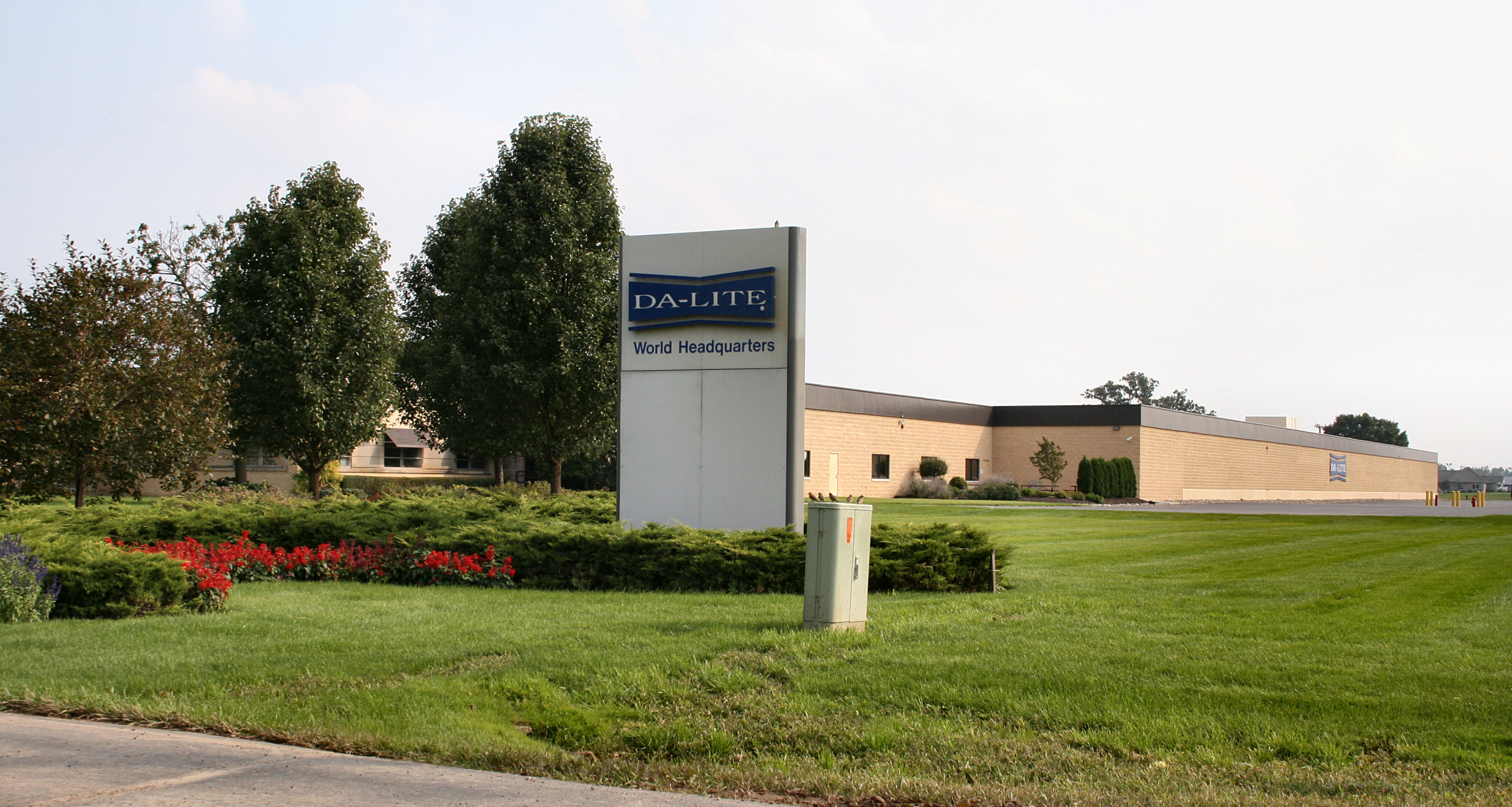 Da-Lite headquarters building in Warsaw, Indiana. Photo shot by Derek Jensen (Tysto), 2005-October-02